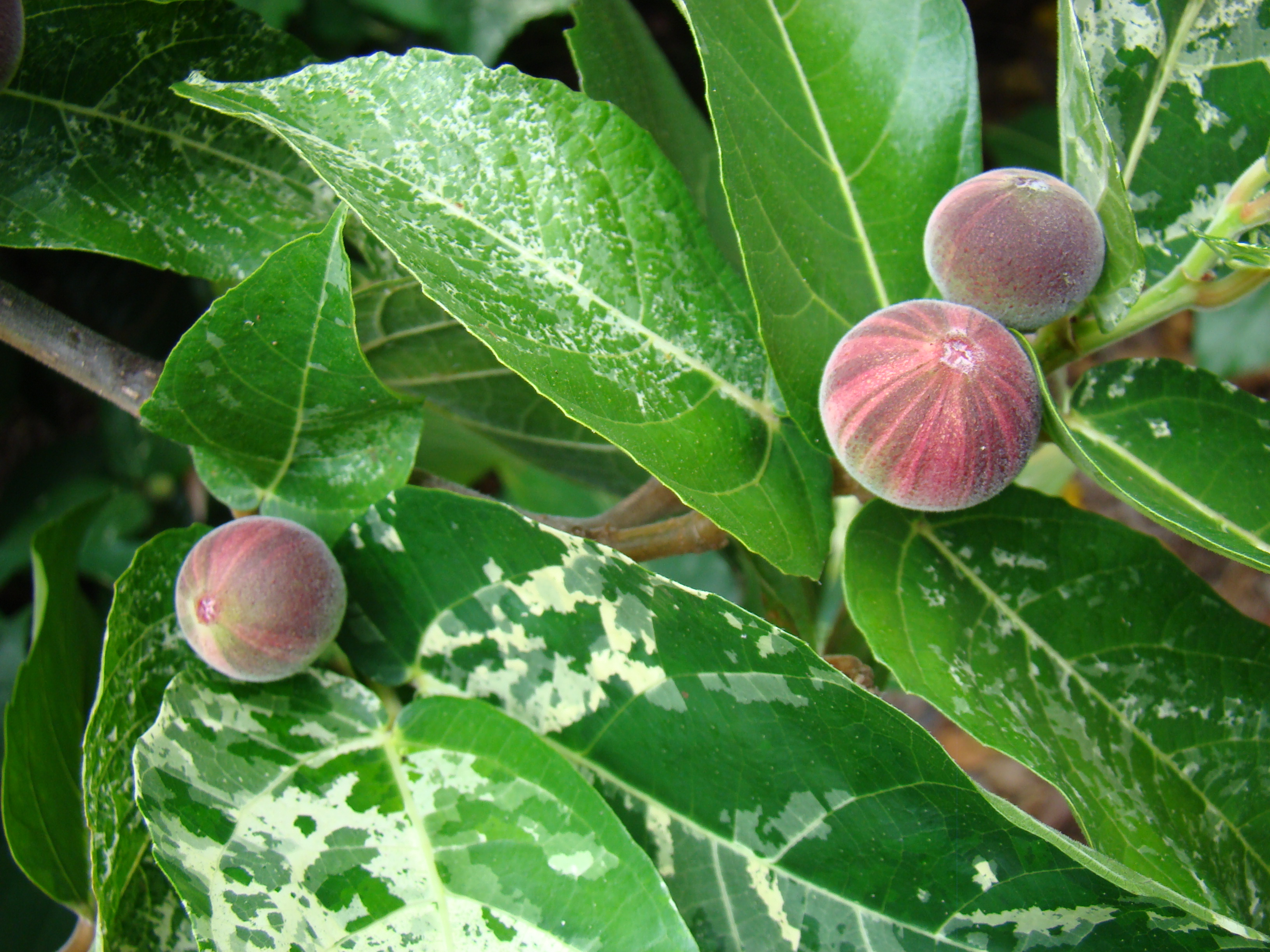 Figs on a variegated fig Ficus aspera 'Parcellii' (Moraceae) tree in Flamingo Gardens, Davie, Florida.